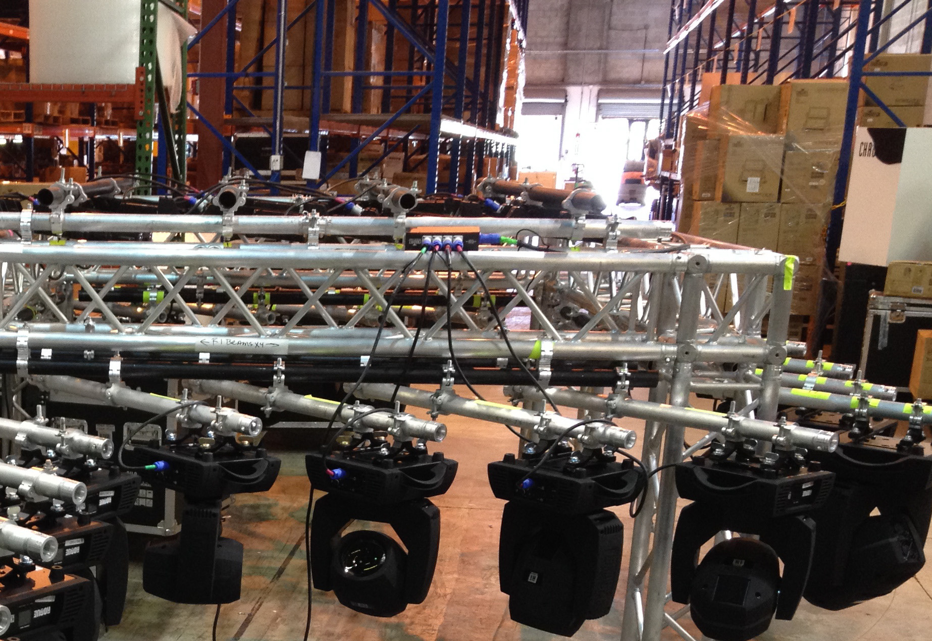 A lowered lighting truss showing moving heads (bottom) connected to a plug-in box (centre)